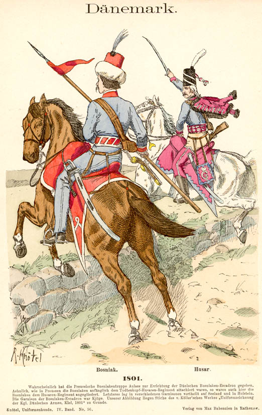 The Danish Bosniak Squadron 1791–1808